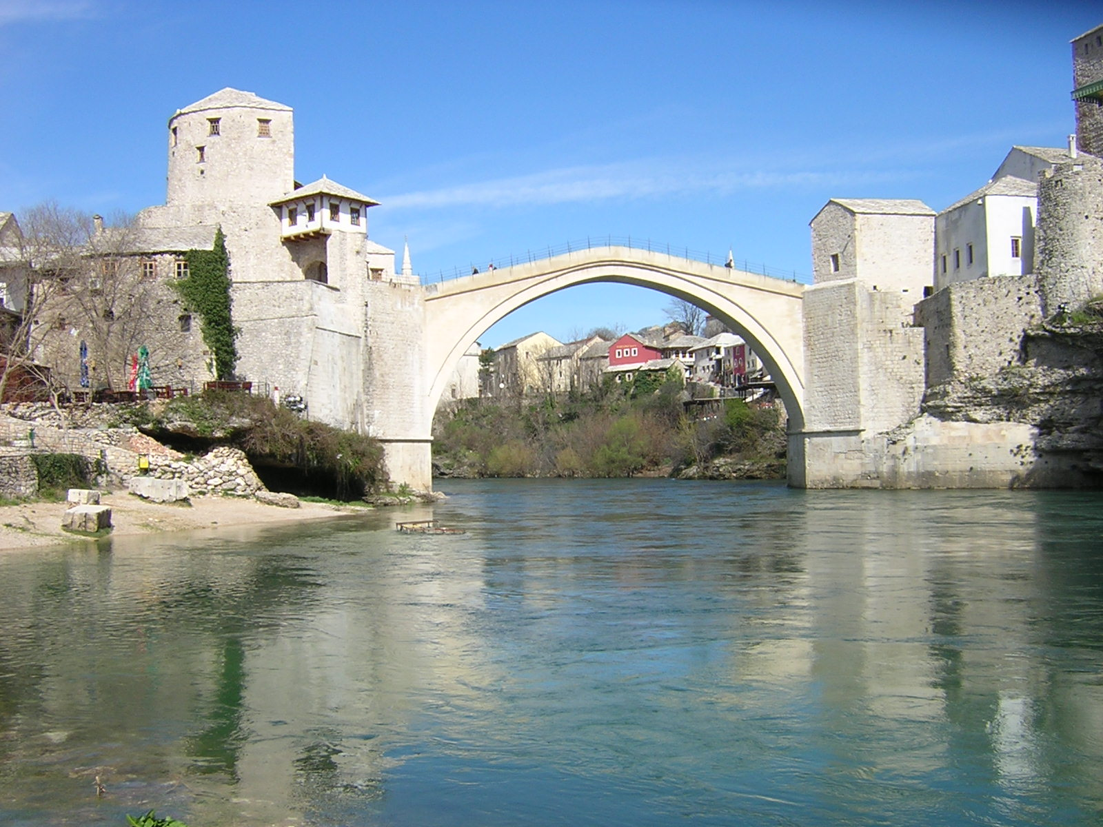 Stari most in Mostar, Bosnia and Herzegovina